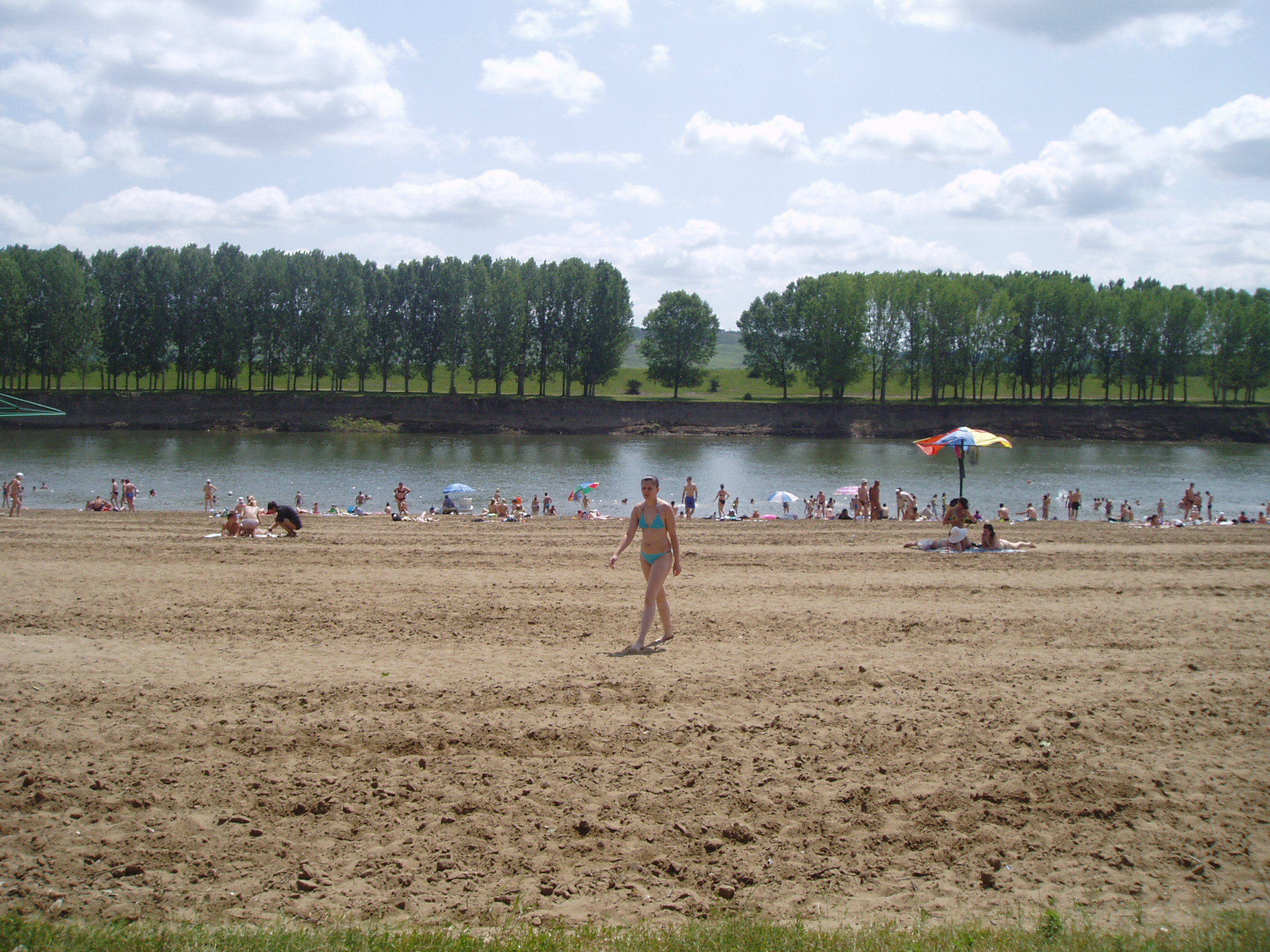 Dniester in Moldavia, near Vadul lui Vodă.